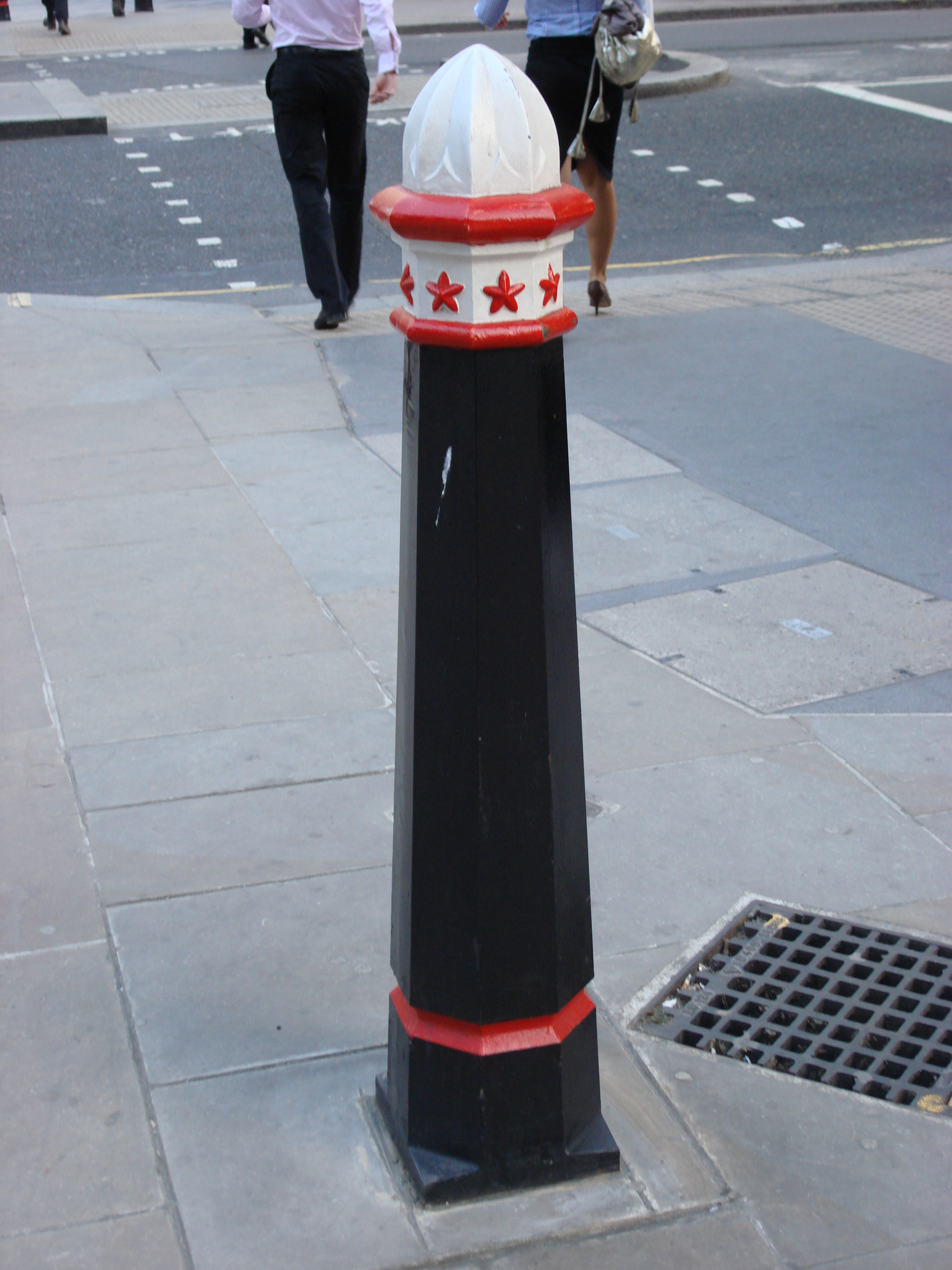 A City of London Bollard near Mansion House Tube